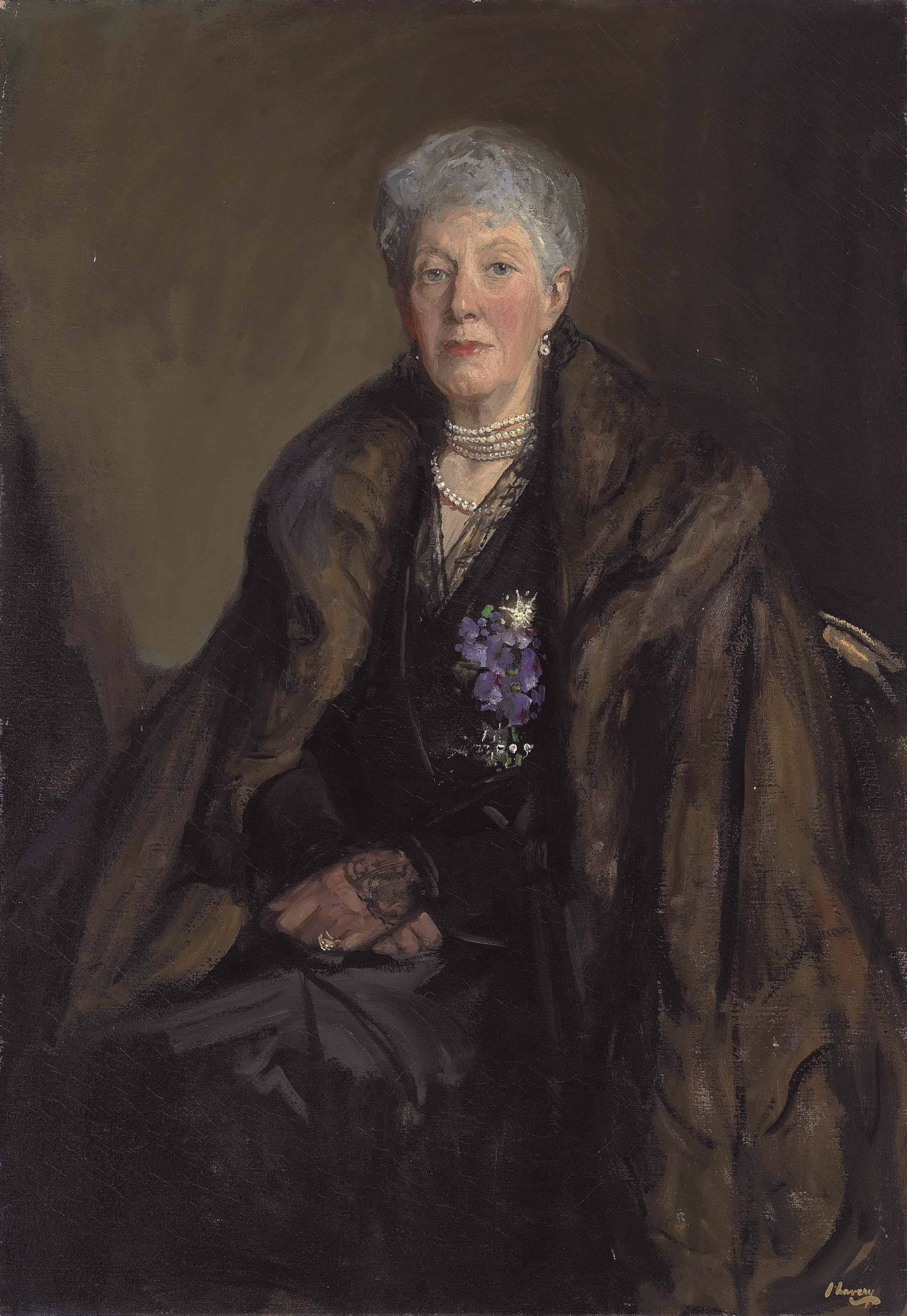 Ellen Julia Myers, Lady Jackson, wife of John Jackson oil on canvas 129.7 x 88.6 cm signed l.r.: J. Lavery inscribed (verso): LADY JACKSON./By/JOHN LAVERY./1919